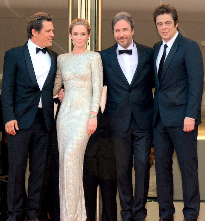 Josh Brolin, Emily Blunt, Denis Villeneuve and Benicio del Toro : director and stars of "Sicario" at the Cannes film festival